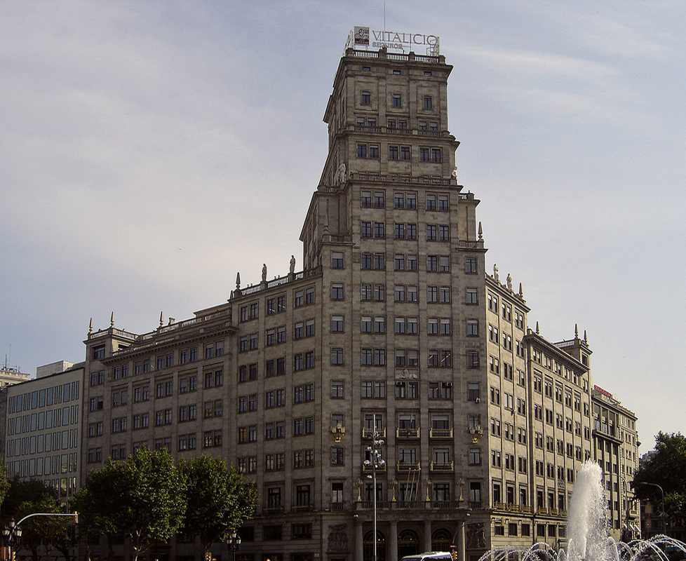 Banco Vitalicio de España, Gran Via de les Corts Catalanes with Passeig de Gràcia confluence, in Barcelona. By Hansen.